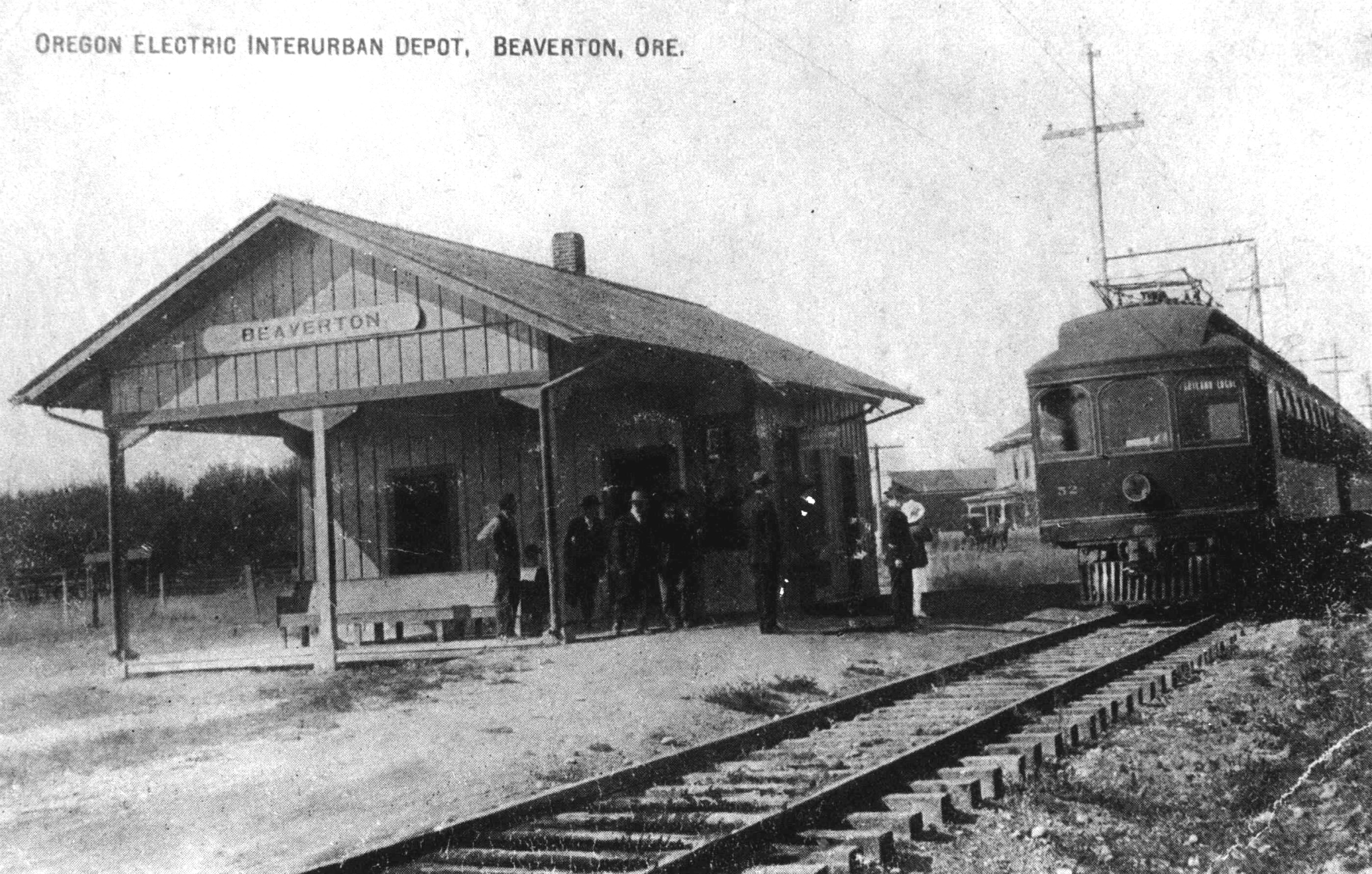 Oregon Electric Railroad Depot, Beaverton, Oregon. Historical images of Beaverton, Oregon.